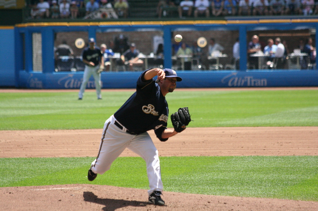 Mike Burns at Miller Park.